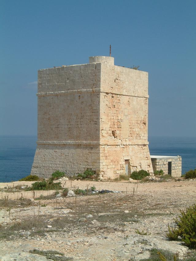 Madliena Tower, photo taken from top of what appears to be remains of some sort of World War 2 military installation. This media is about Maltese cultural property with inventory number 50.